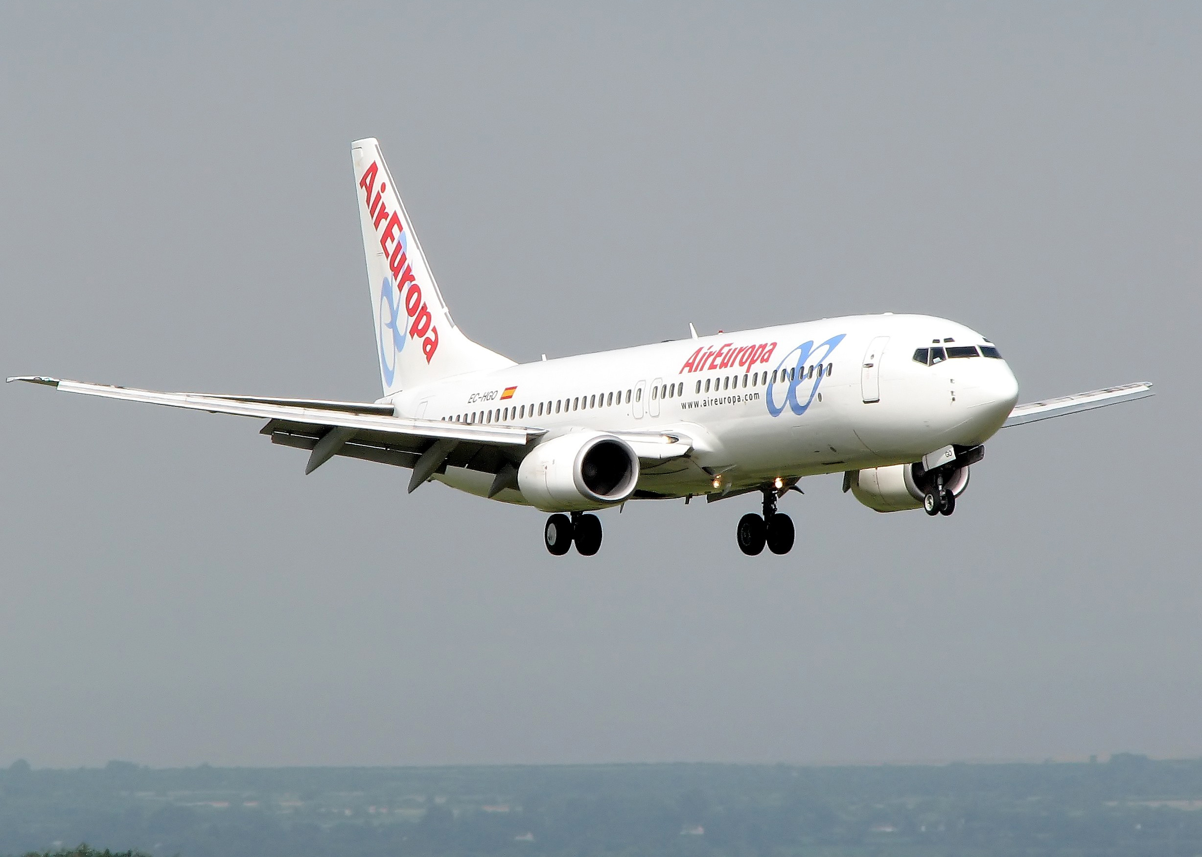 Air Europa Boeing 737-800 (EC-HGO) landing at Bristol International Airport, Bristol, England. Photographed by Adrian Pingstone on July 15th 2006 and released to the public domain.